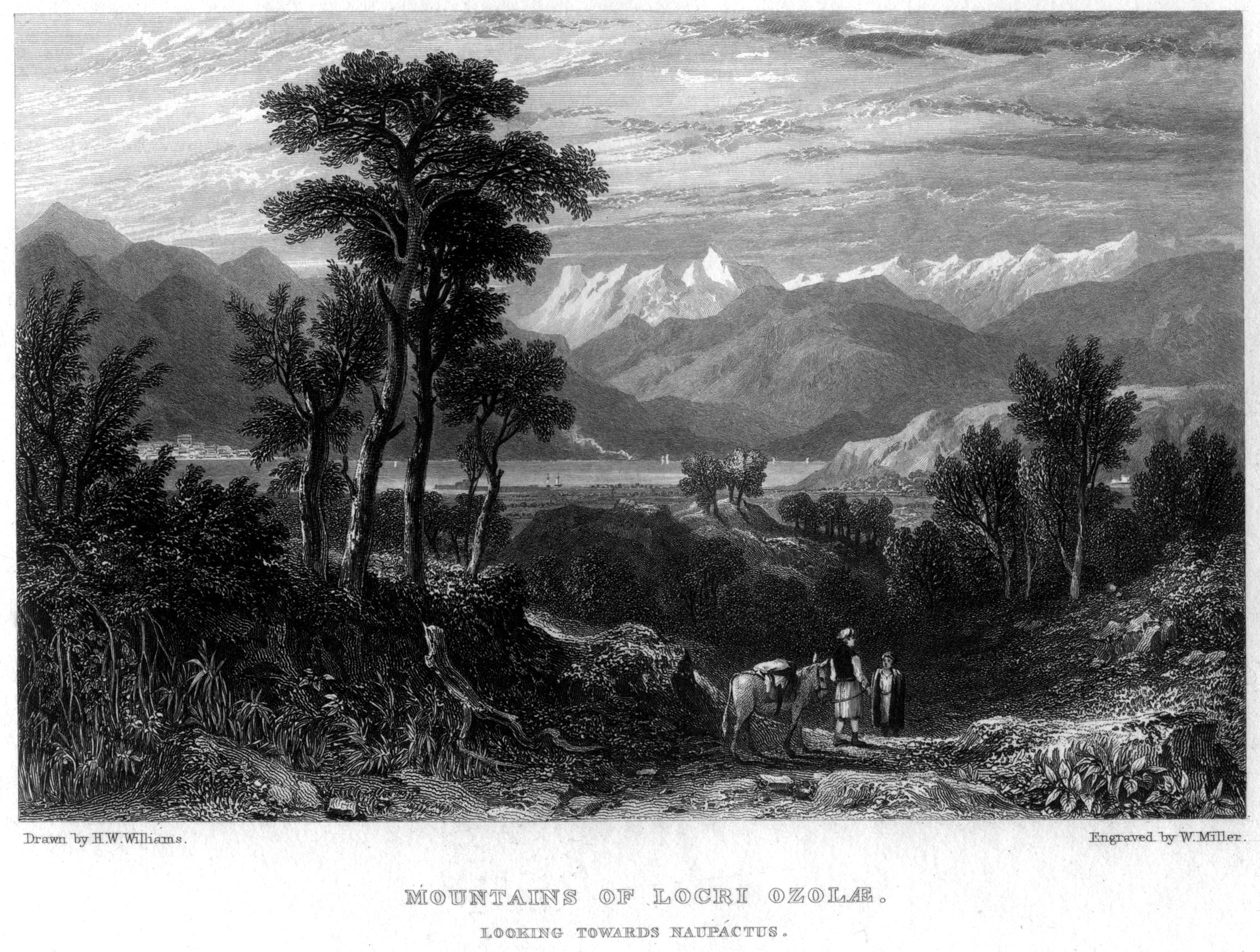 Mountains of Locri, Ozolae, looking towards Naupactus engraving by William Miller after H W Williams (Miller paid £17-17-0 in v 1827 for engraving), published in Select Views In Greece With Classical Illustrations. Williams, Hugh William. London: Longman Rees Orme Brown and Green; and Adam Black. 1829